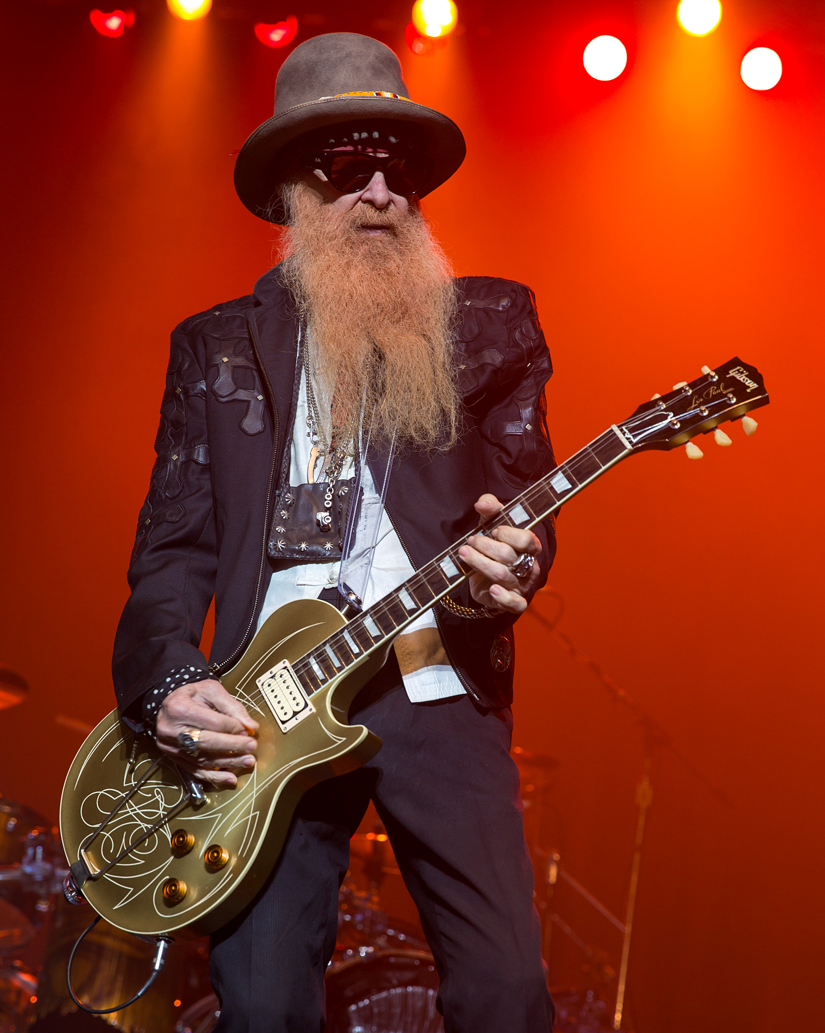 Billy Gibbons of ZZ Top performing in San Antonio, Texas 2015-01-18.